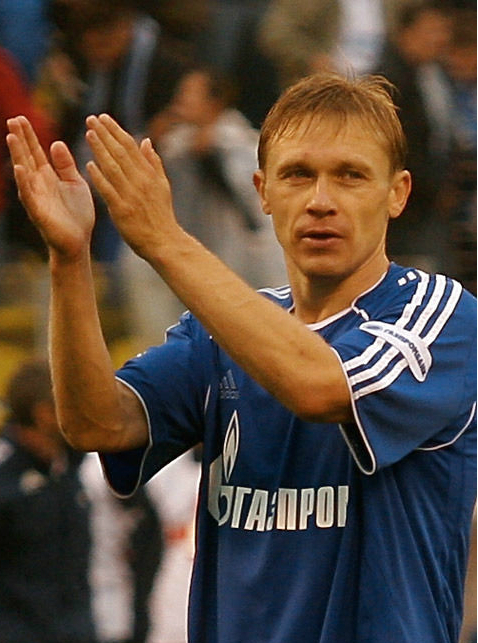 Alexandr Gorshkov as a player of FC Zenit St. Petersburg